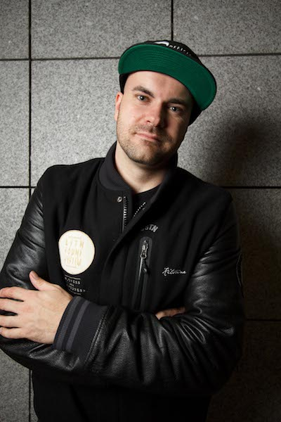 DJ Kitsune press pic